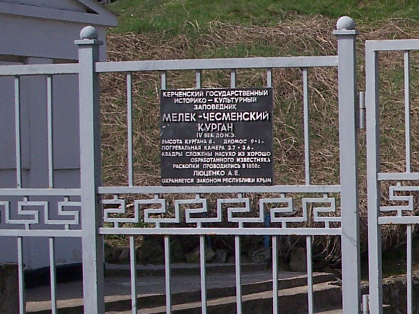 Info Plaque of Melek-Chesmenskiy Kurgan, Crimea, Ukraine. Информационная табличка Мелек-Чесменский Курган, Керчь, Крым